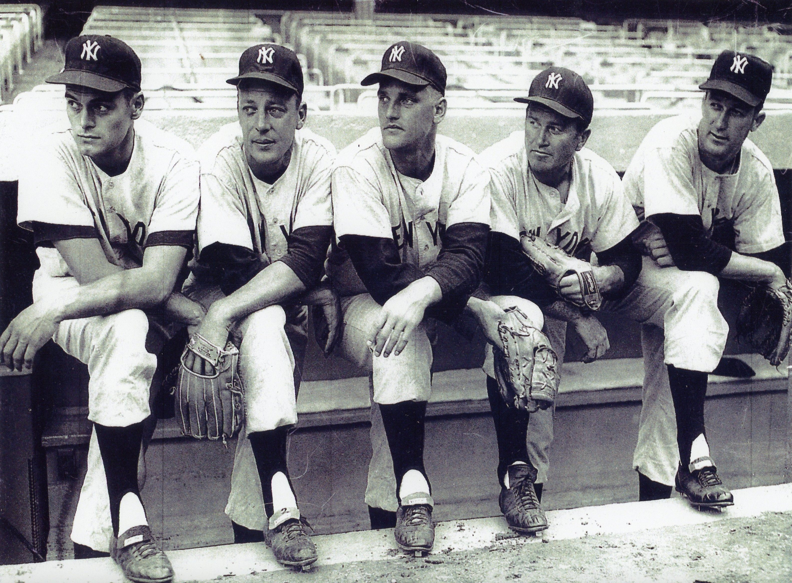 This picture is of the new players who joined the New York Yankees in 1960: Kent Hadley, Joe De Maestri, Roger Maris, Elmer Valo, Fred Kipp.